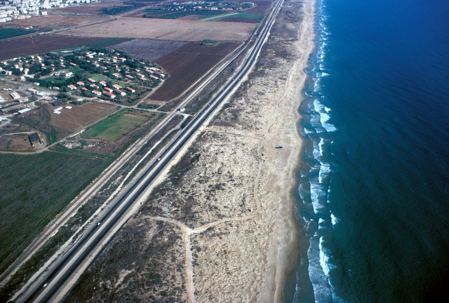 Shoreline , Geography of Israel